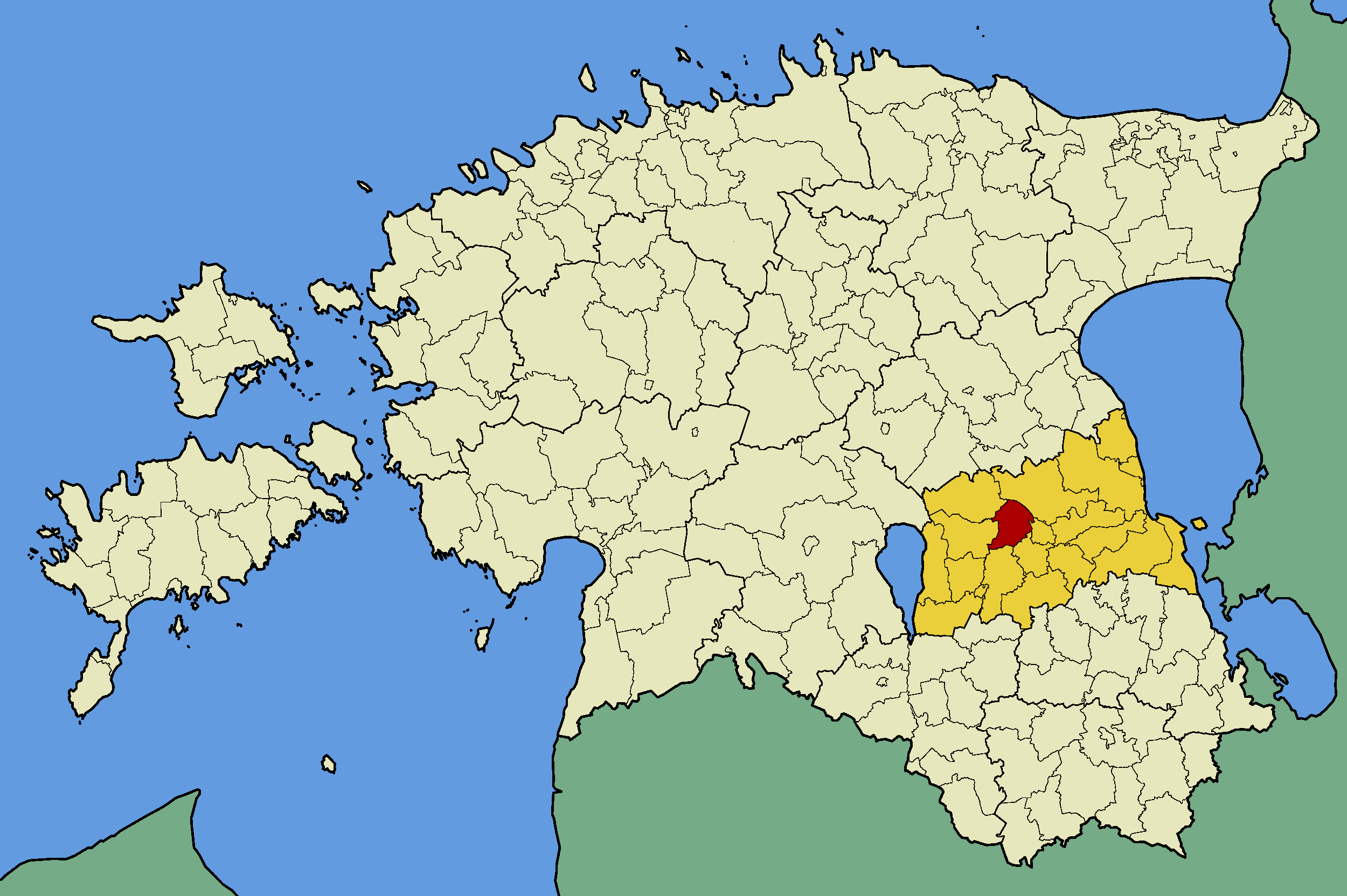 Map of Estonia with borders of municipalities (parishes). Tartu county and Tähtvere municipality emphasized.